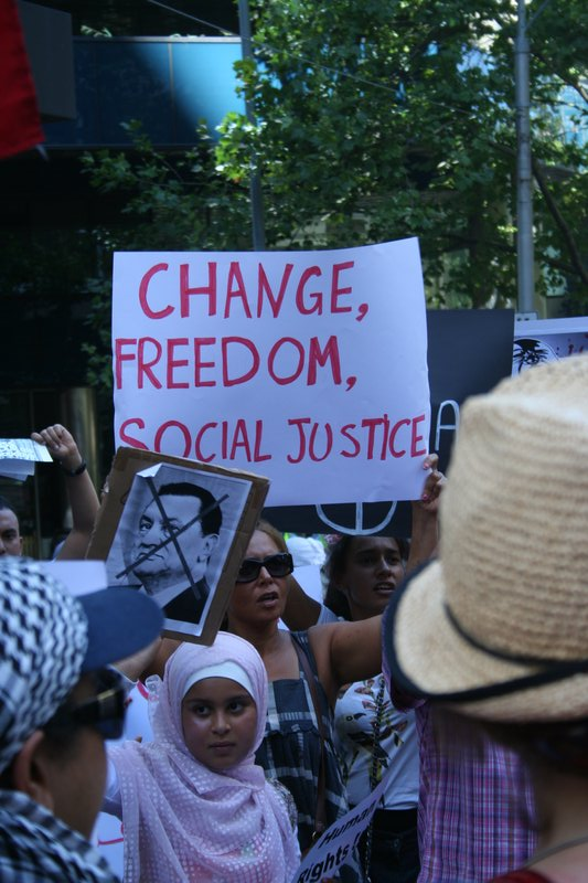 Two hundred people rallied outside the Egyptian consulate in Melbourne. Temperatures were hot, reaching 40 degrees today, but the skyscrapers and trees in Market Street made the rally bearable.